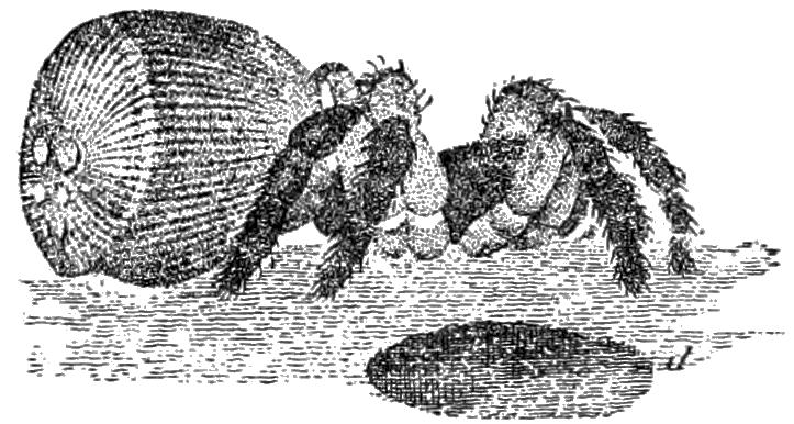 Side view of cyclocosmia truncata